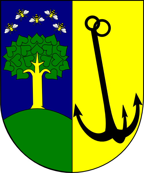 Coat of arms (shield only) of Josef Ondřej Lindauer, bishop of České Budějovice, Czech Republic (1845 - 1850).